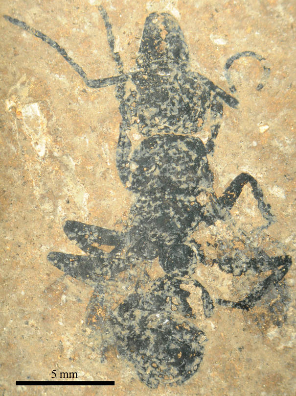 Dorsal view of the Cephalopone potens holotype fossil. Specimen SMFMEI10860